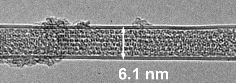 TEM image of a double-walled C60 carbon nanotube peapod.